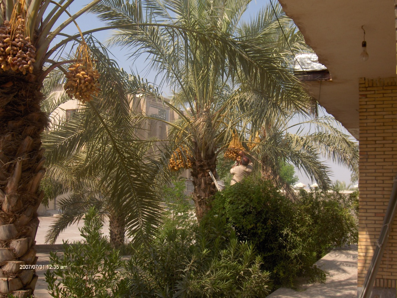 A man picking dates in Borazjan, Iran